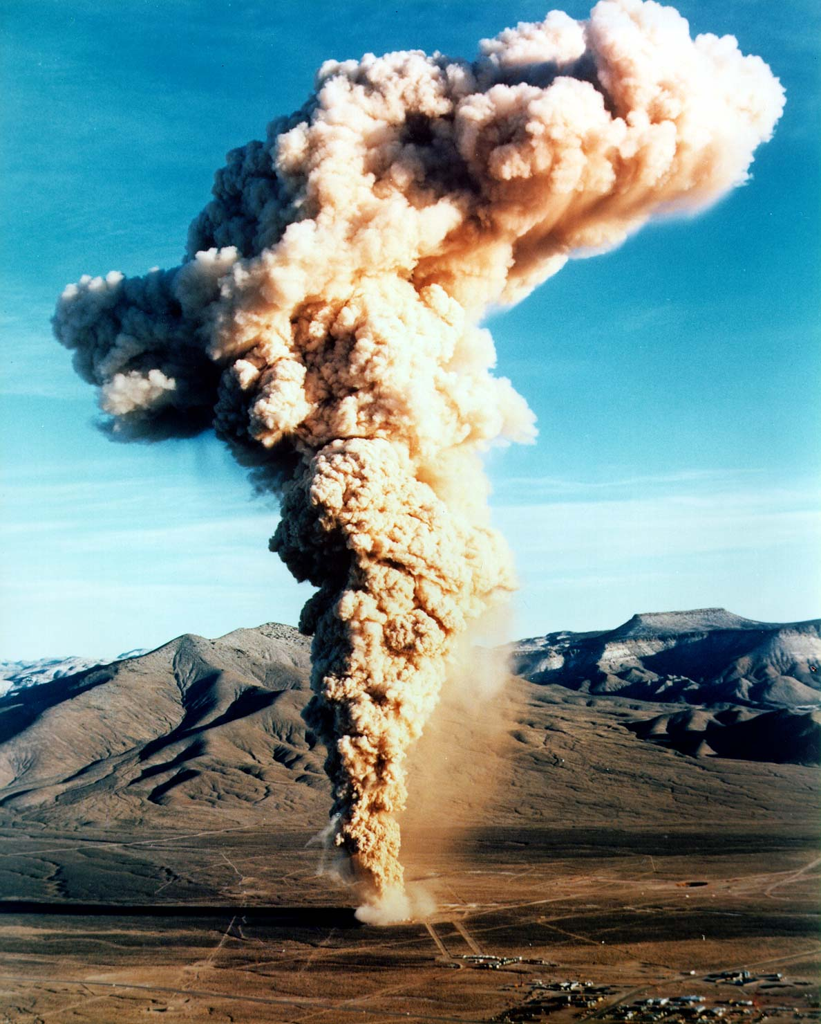 On December 18, 1970, the Baneberry underground nuclear test at the Nevada Test Site released radioactivity to the atmosphere. Baneberry had a yield of ten kilotons. It was buried about 900 feet beneath the surface of Yucca Flat, near the northern boundary of the NTS